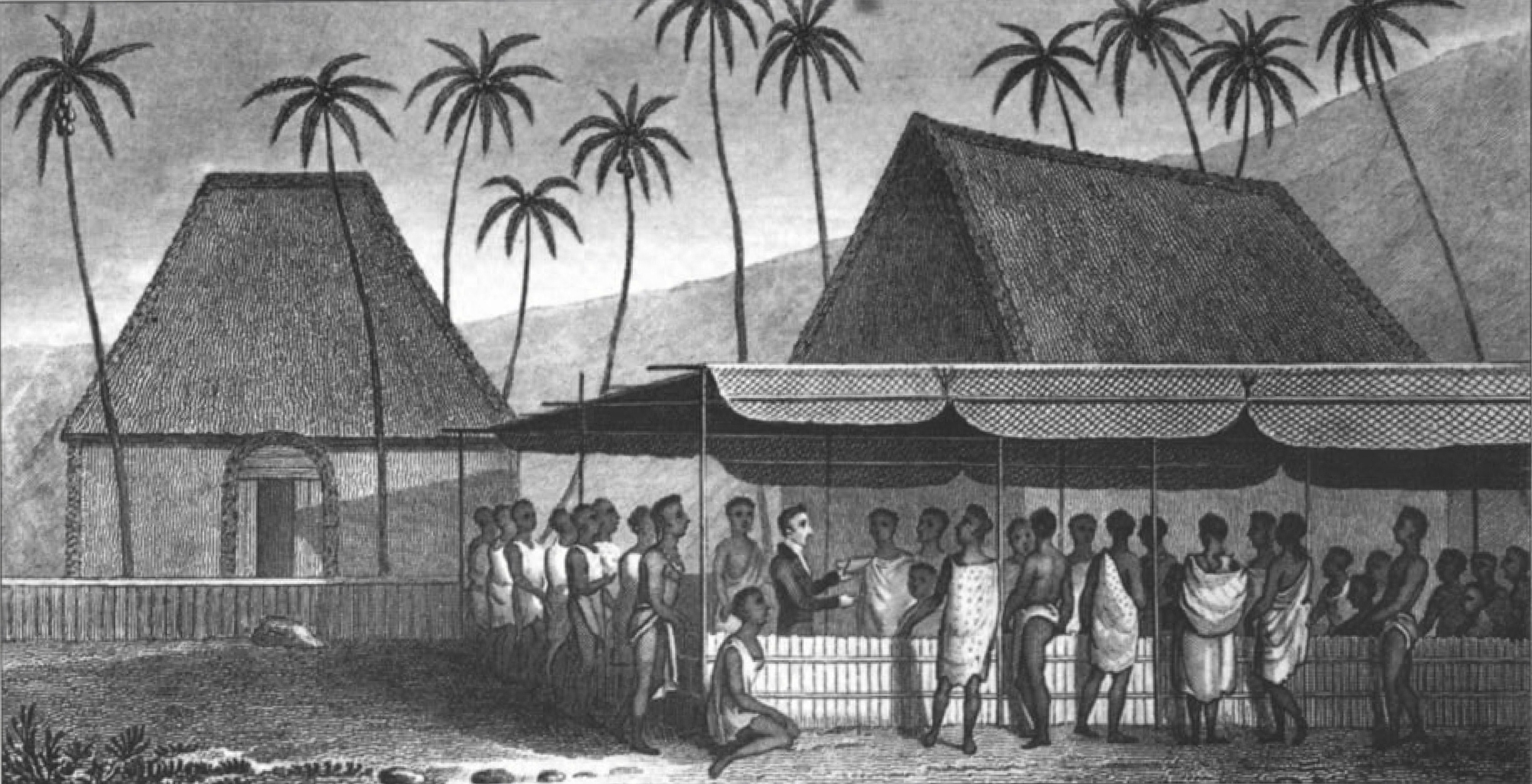 A Missionary Preaching to the Natives, under a Skreen of platted Cocoa-nut leaves at Kairua (Kailua-Kona, Hawaii). Engraving by T. Dixon after Rev. William Ellis for Ellis' Narrative of a Tour through Hawaii (in 1823). Published: London, H. Fisher, Son, and P. Jackson.